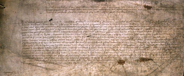 Letters patent for a voyage to discover new lands granted to John Cabot and his three sons by the king of England, Henry VII, at Westminster on March 5, en:1496